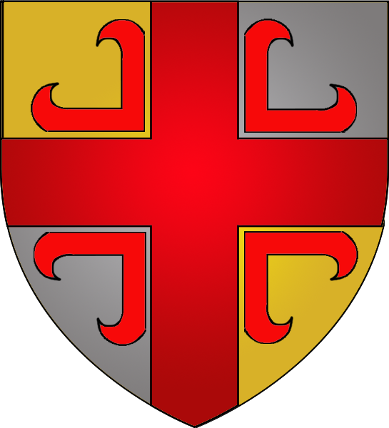 Coat of arms of the municipality of Lenningen, Luxembourg